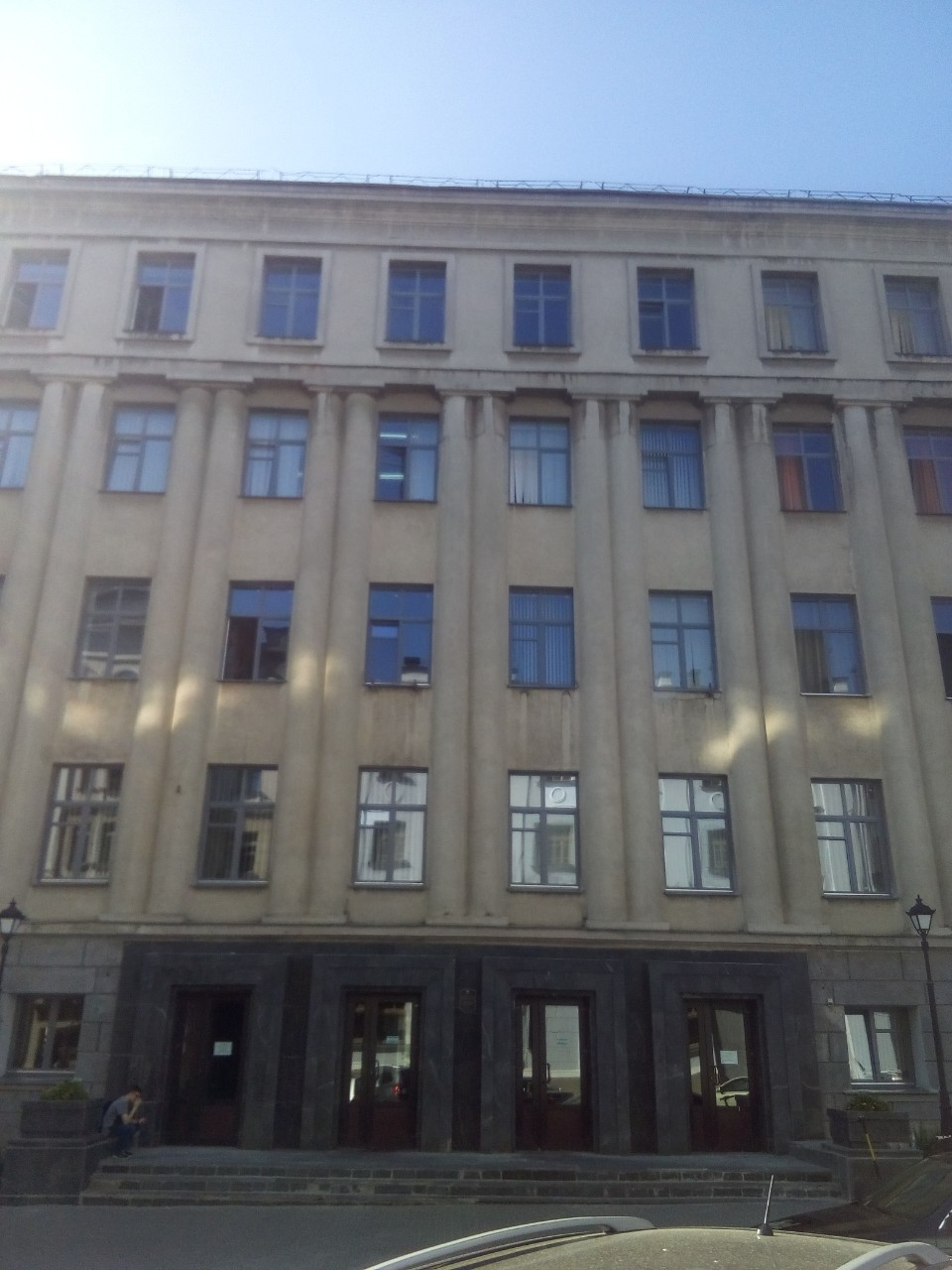 Entrance to the Faculty of Philology of the Belarusian State University (Minsk, K. Marx Street 31; 10th of June, 2019)